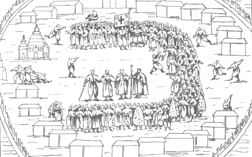 "Cossack's Rada" (Rihelman's Chronicle)